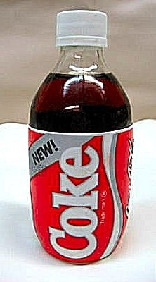 A plastic bottle of "New Coke."